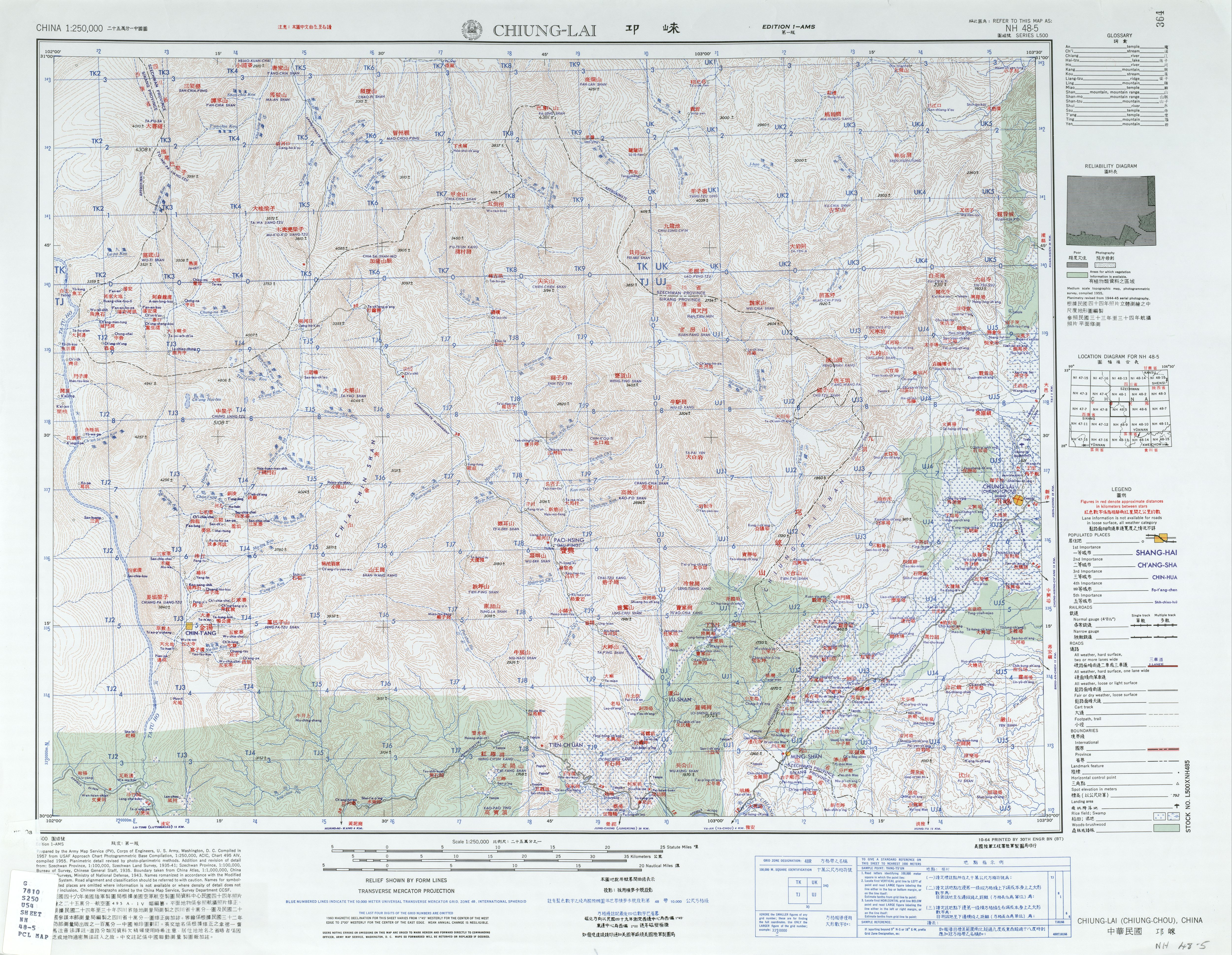 China AMS Topographic Maps